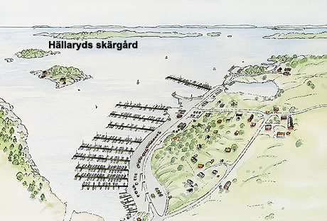 An illustration of the Matvik harbor in Karlshamn Municipality.